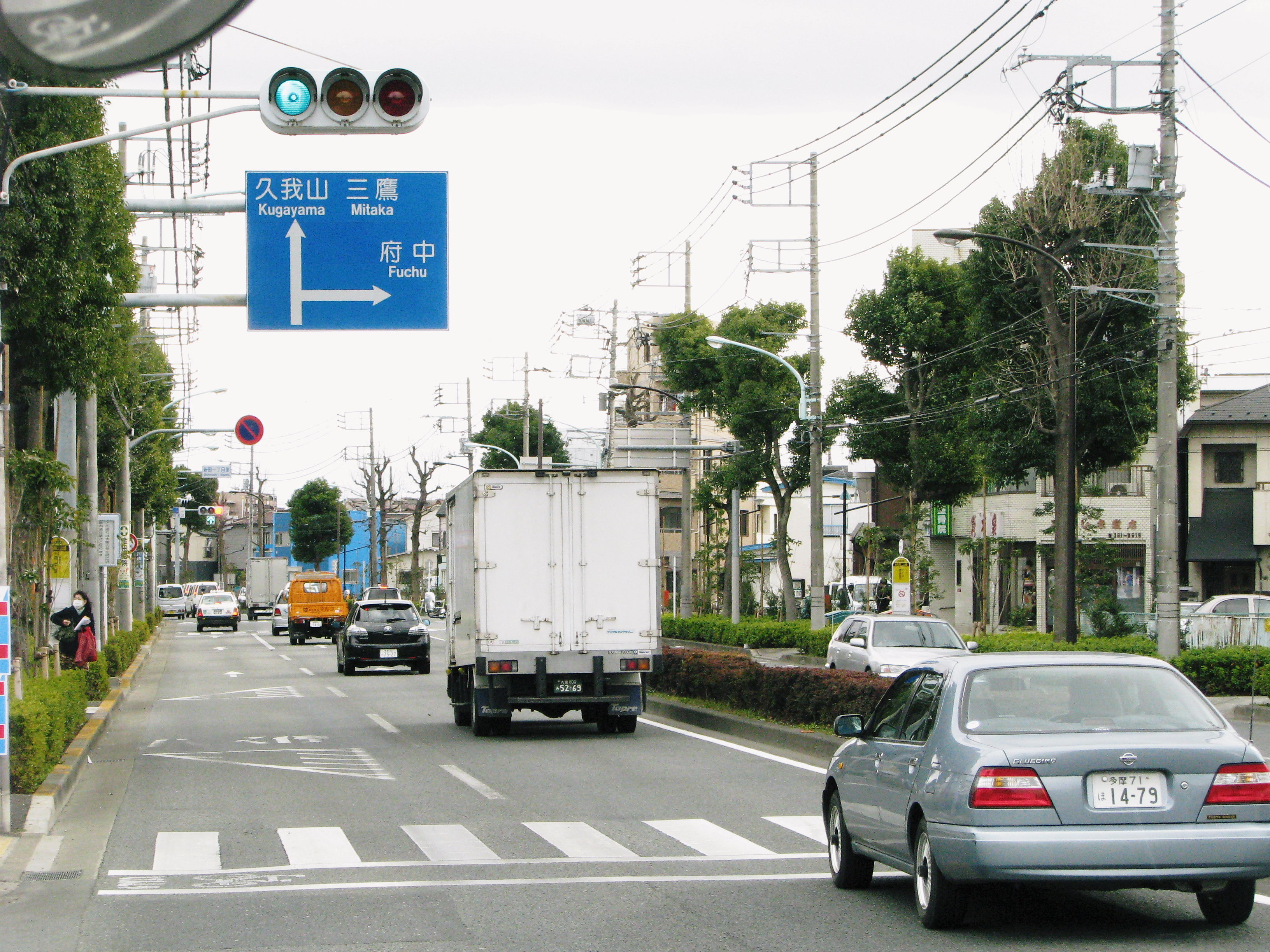 Tokyō metro road 14 Shinjuku - Kunitachi Line (for Kugayama and Mitaka), Fuchu C, Tokyo M.